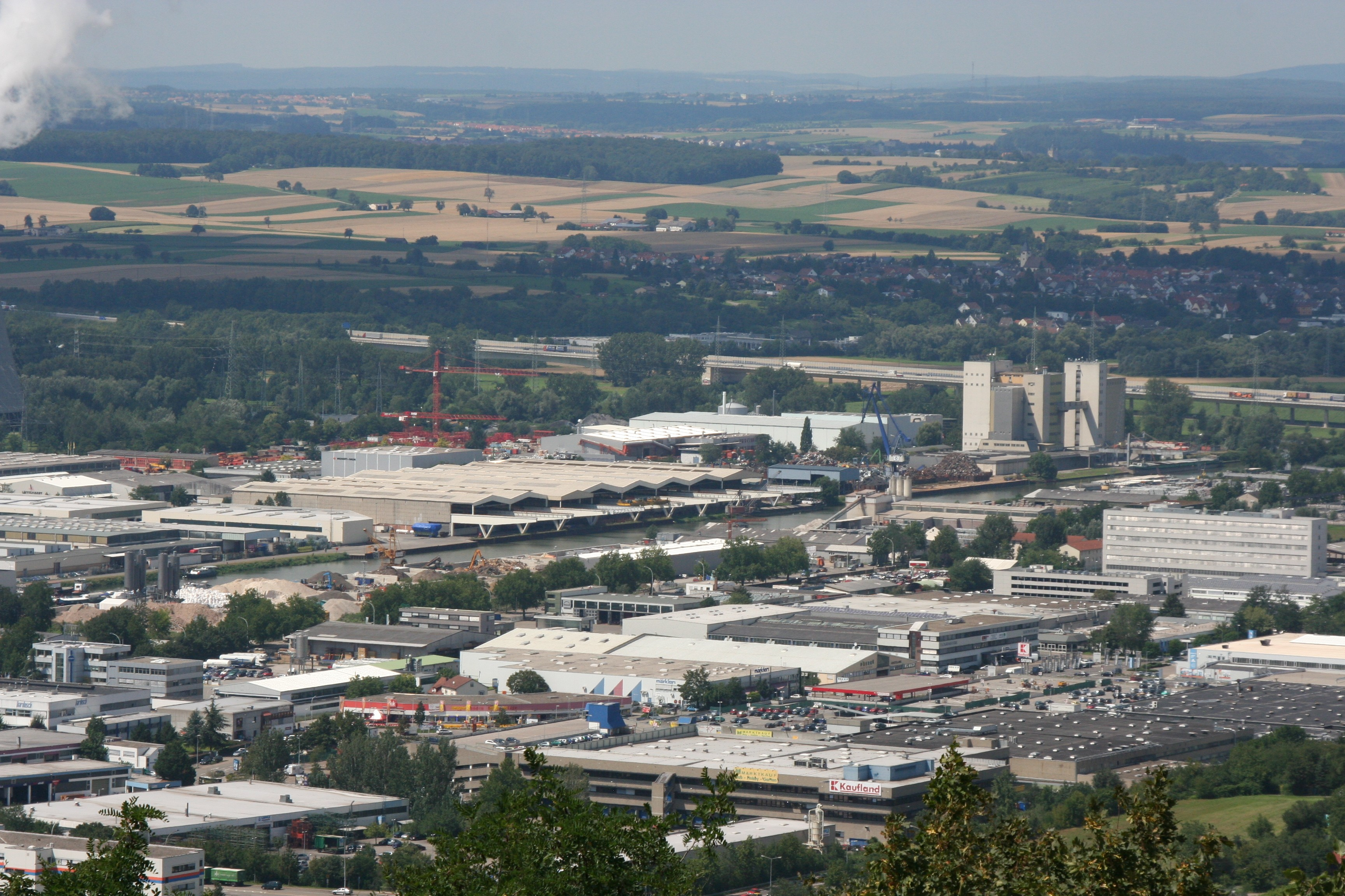 The East port in Heilbronn as seen from the Wartberg tower. Behind the port from left to right the Bundesautobahn 6